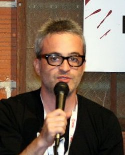 Alex Kurtzman speaking at an offsite San Diego Comic-Con International 2013 event for Sleepy Hollow